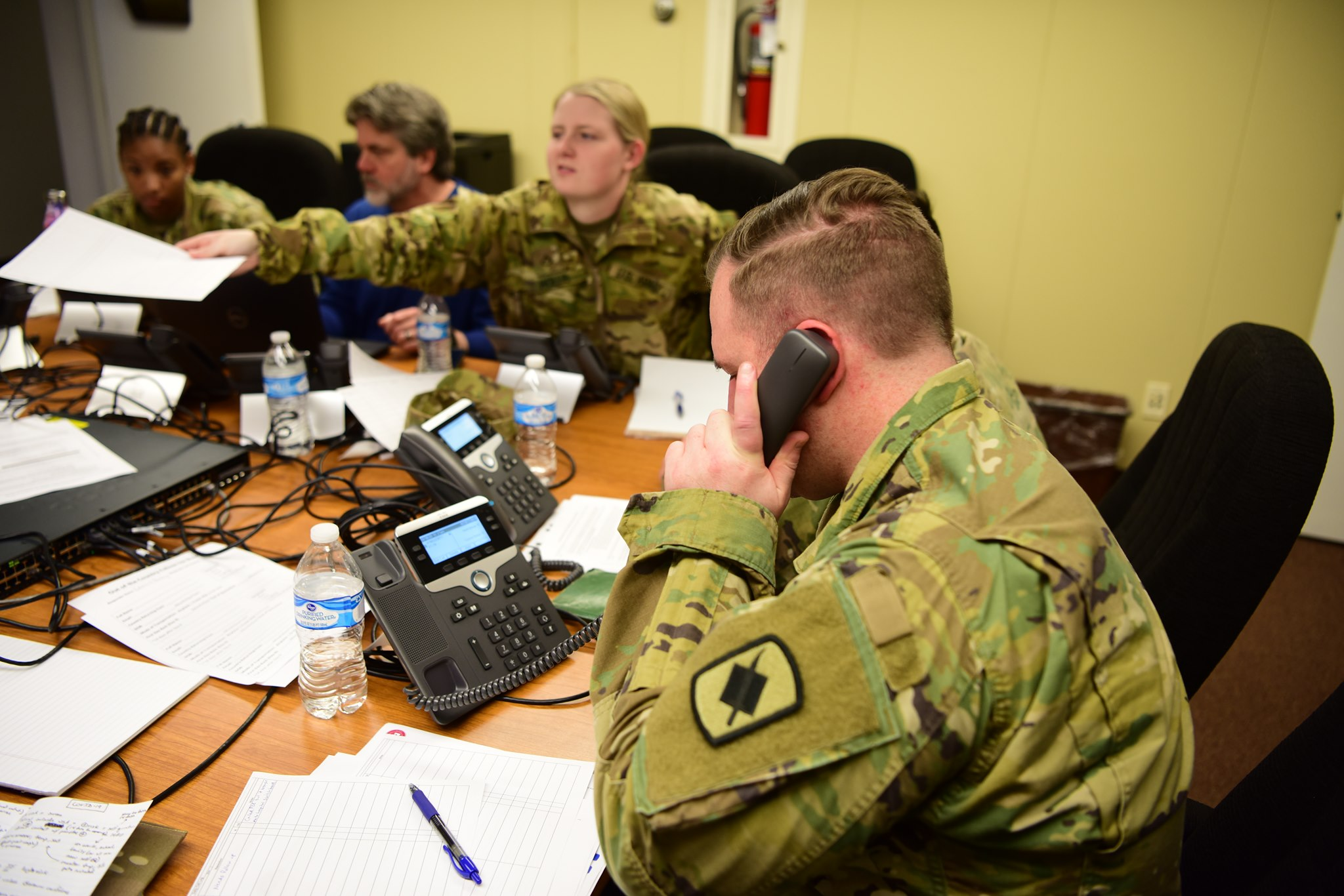 Arkansas National Guard Soldiers from C Co BSB, HHC 239th BEB, and HHC 2-153rd, 39th IBCT, assist the Arkansas Department of Health and Arkansan’s calling with questions related to COVID-19. Five soldiers have been answering calls since Saturday, while 15 more arrived this morning. Each Soldier is answering around 50-75 Arkansans per day. (Photo by 2nd Lt. Charles Davis)